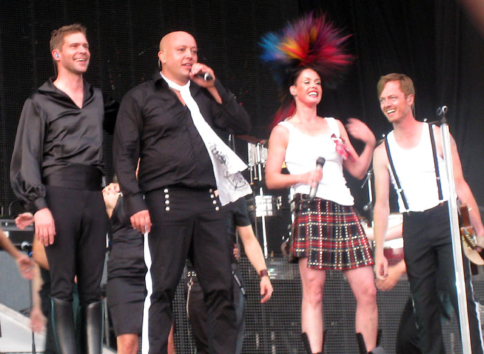 Aqua at the Gron Concert in 2008